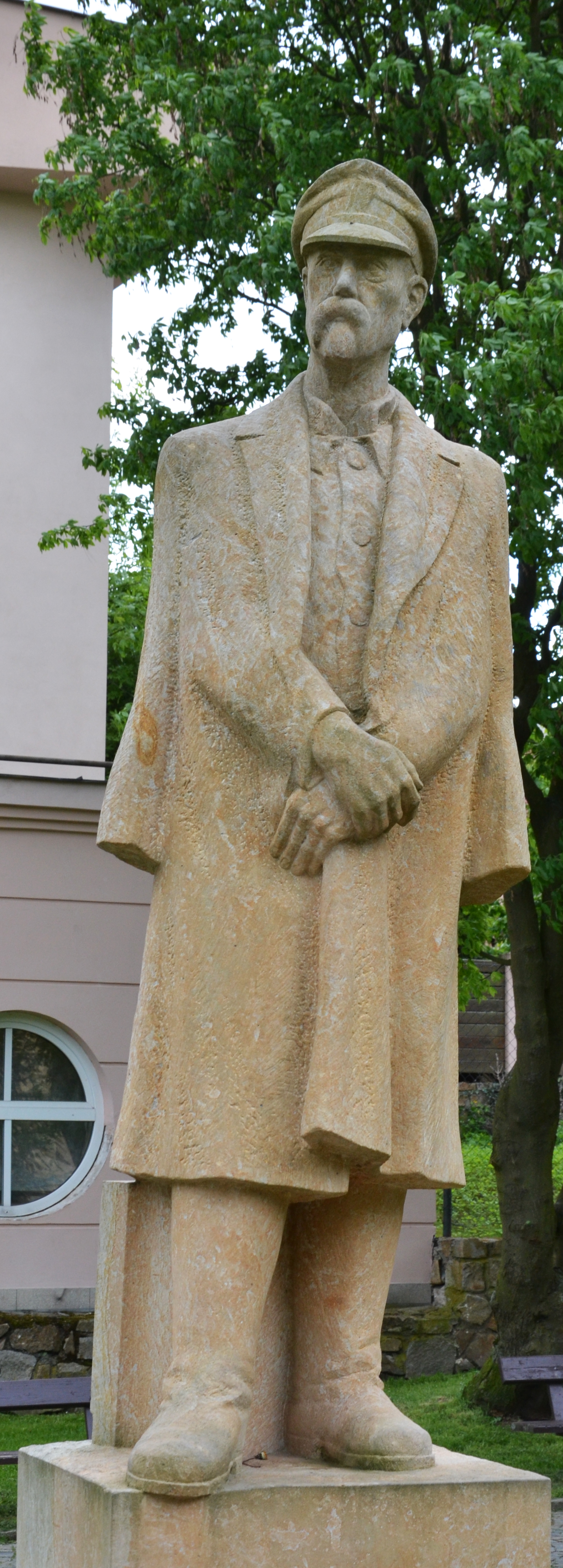 Statue of T.G. Masaryk by Jaroslav Šlezinger (copy 2011), Jihlava